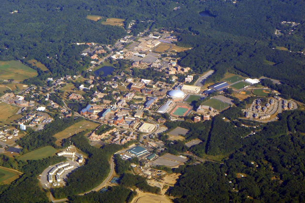 View of University of Connecticut from above.